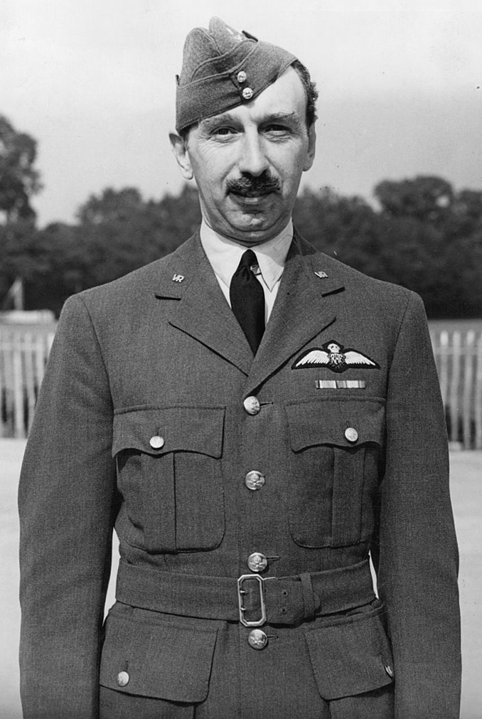 2nd September 1940: Cricket player, Percy Fender in a military uniform.